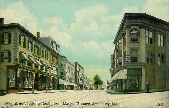 Main Street, looking south from Market Square, Amesbury, MA; from a 1911 postcard. Intersection of Main and Friend Streets, also known as Thornton Square, dedicated to Corporal John J. Thornton of Amesbury, the first American boy from Amesbury killed in action while in the service of the United States during World War I. Dedicated in his honor May 30, 1919